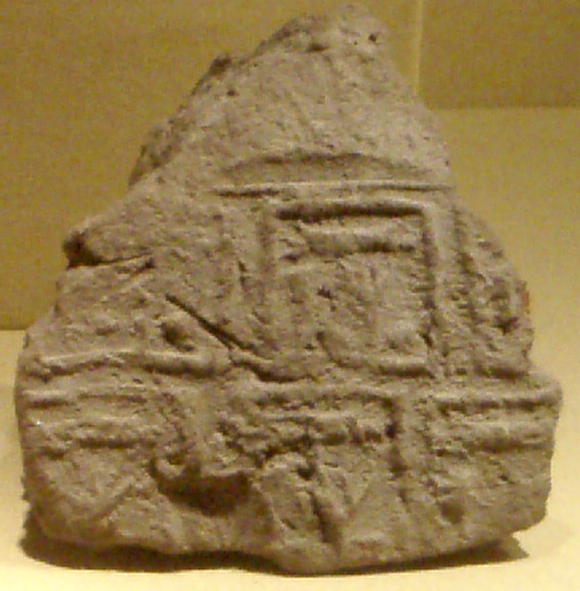 A mud jar sealing indicating that the contents came from the estate of the pharaoh Narmer. Late Naqada III period, circa 3100 B.C., from Tarkhan.